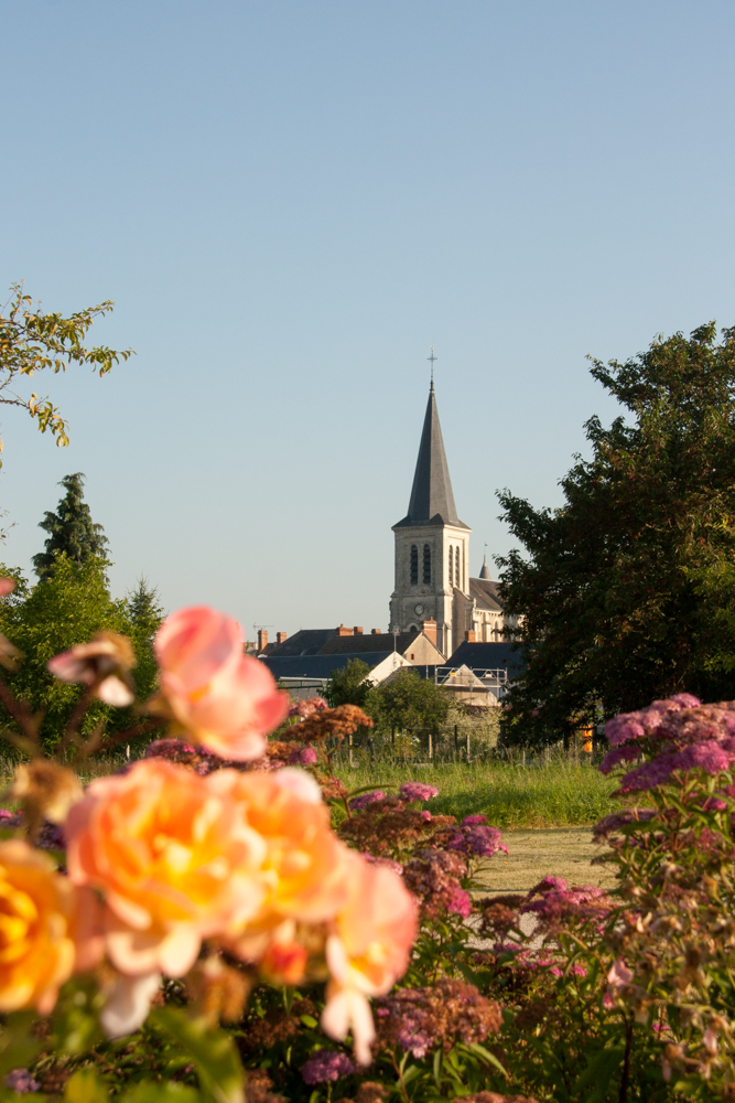 Huisseau sur Mauves - France. South view of the church